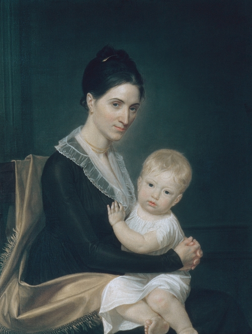 "Mrs. Marinus Willett and Her Son Marinus Jr.," oil on canvas, by the American artist John Vanderlyn. 36 7/8 in. x 28 1/8 in. (93.7 cm x 71.4 cm) Image courtesy of the Metropolitan Museum of Art, New York, New York.